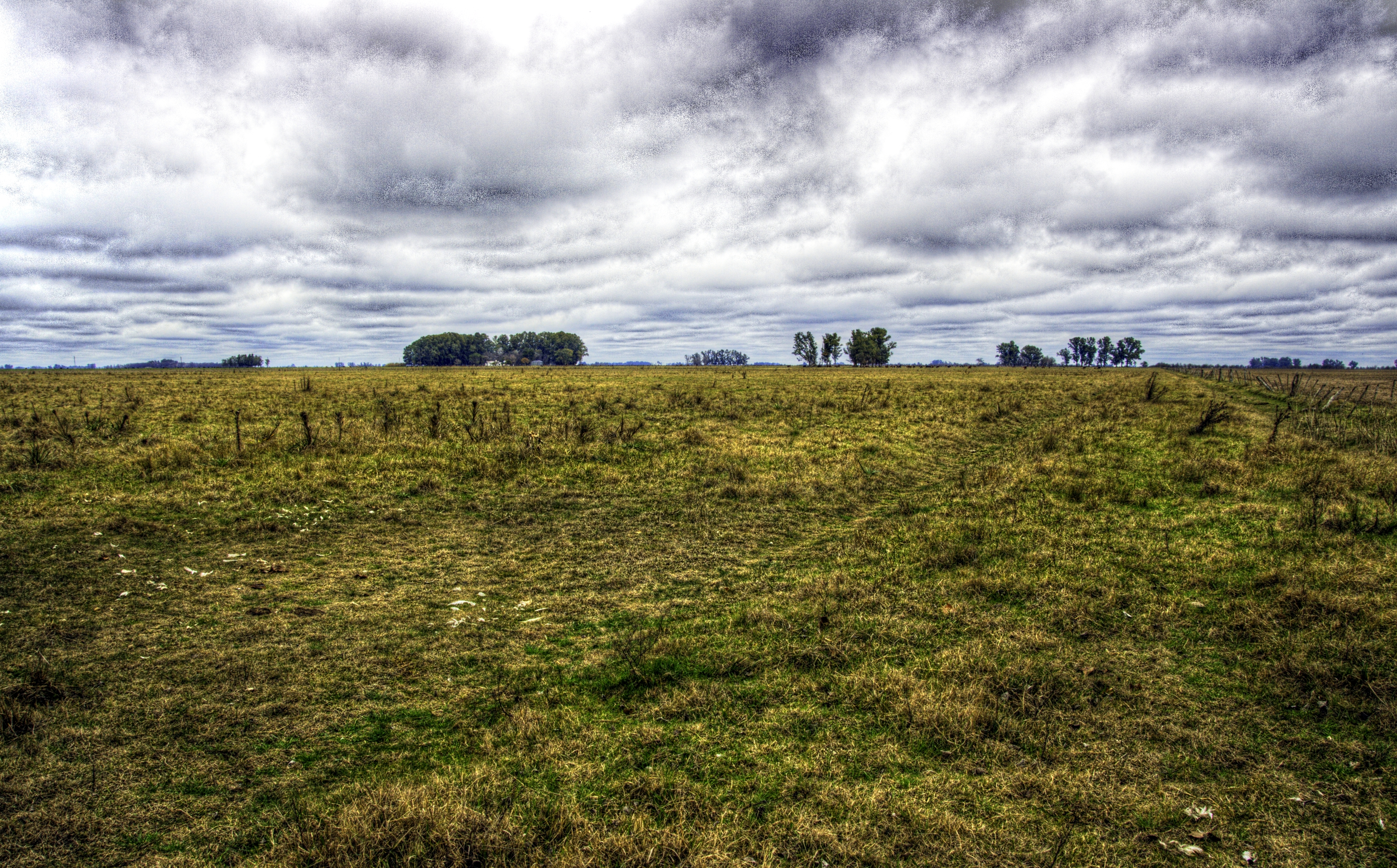 HDR image of the countryside in Buenos Aires